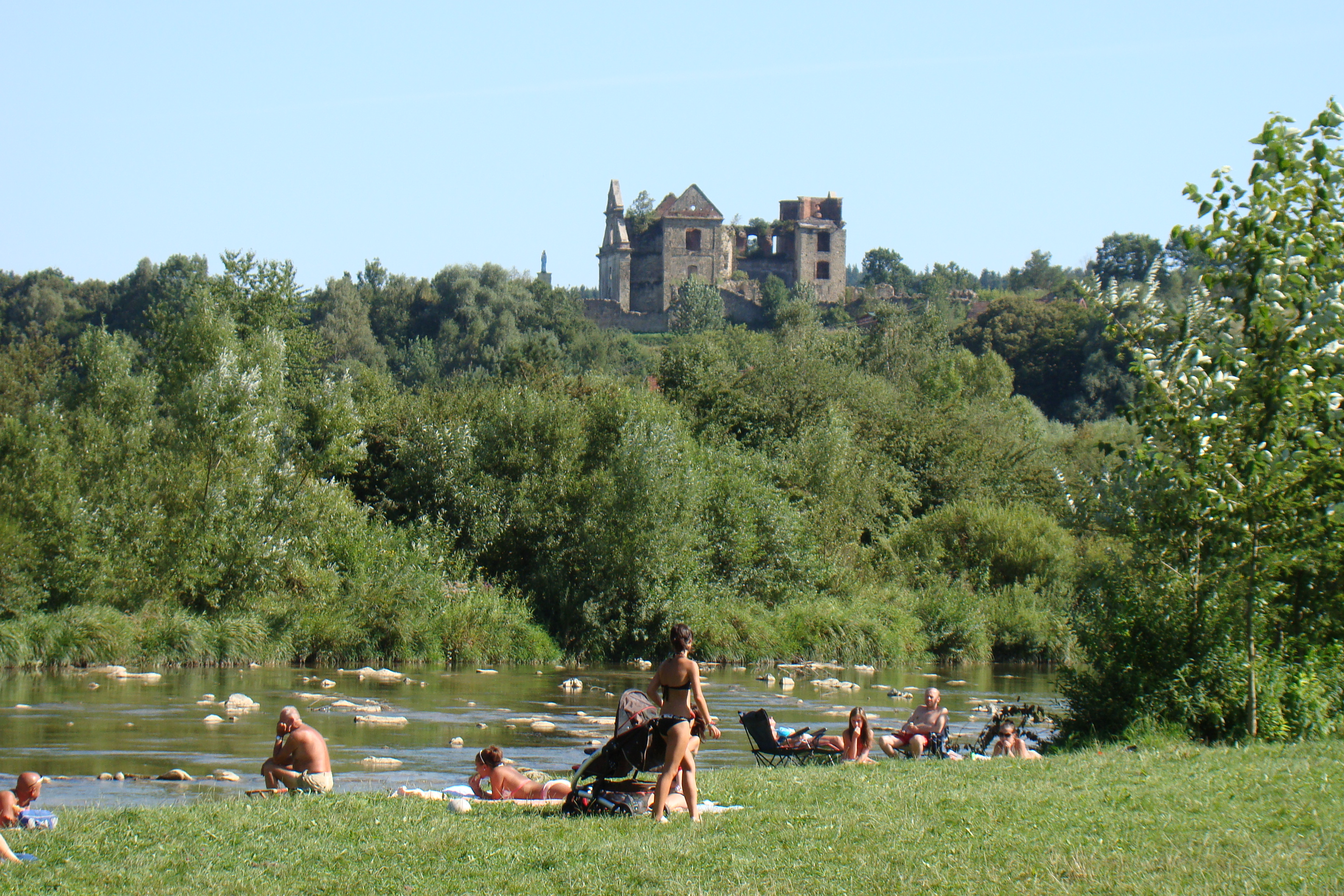 Osława river in Zagórz, near Mariemont.